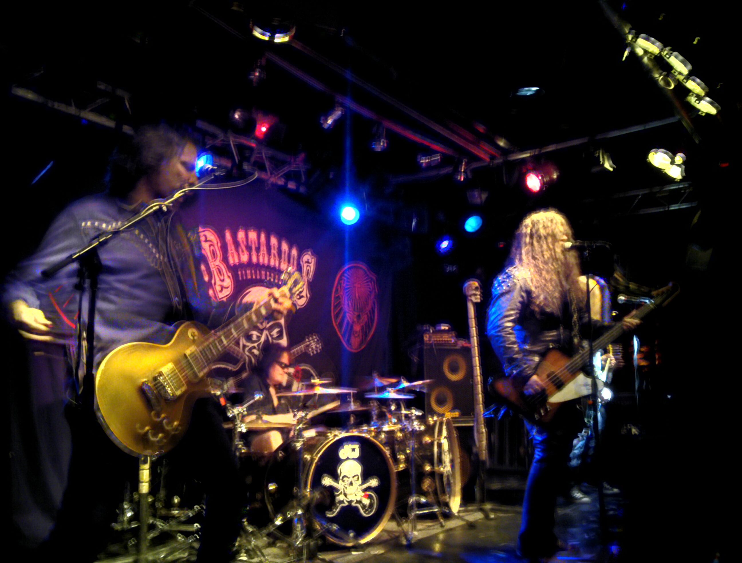 Los Bastardos Finlandeses On The Rocks (Helsinki) 17 Feb 2011